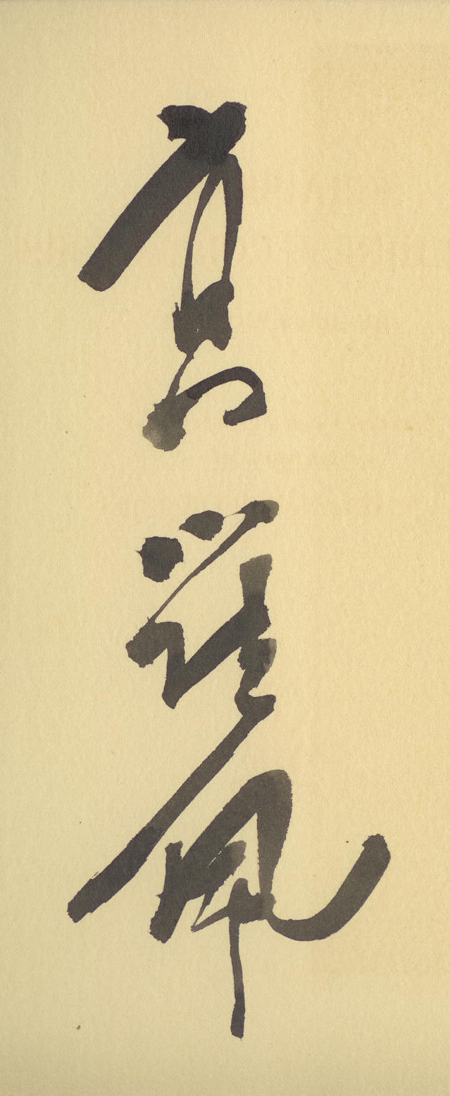 Signature of Robert van Gulik's Chinese name. From the collection of Pim Koldewijn.